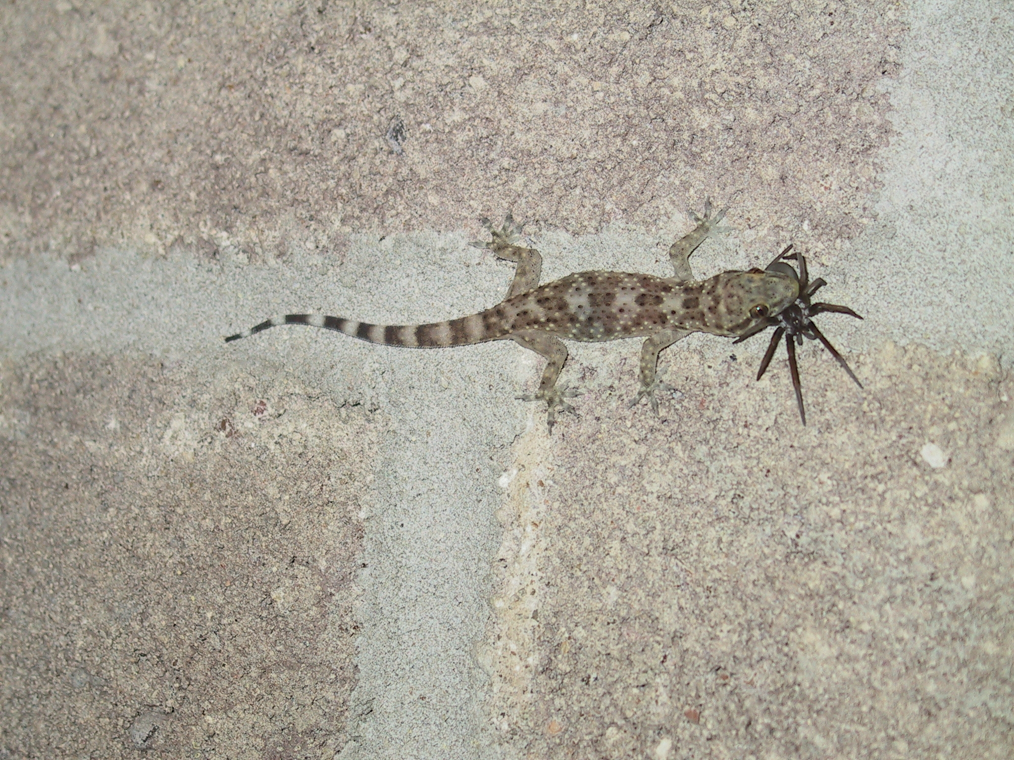 This is a picture of a Common house gecko (Hemidactylus frenatus) that has caught a spider. This was taken on my front porch in Austin, TX. This specimen is about 2" long.